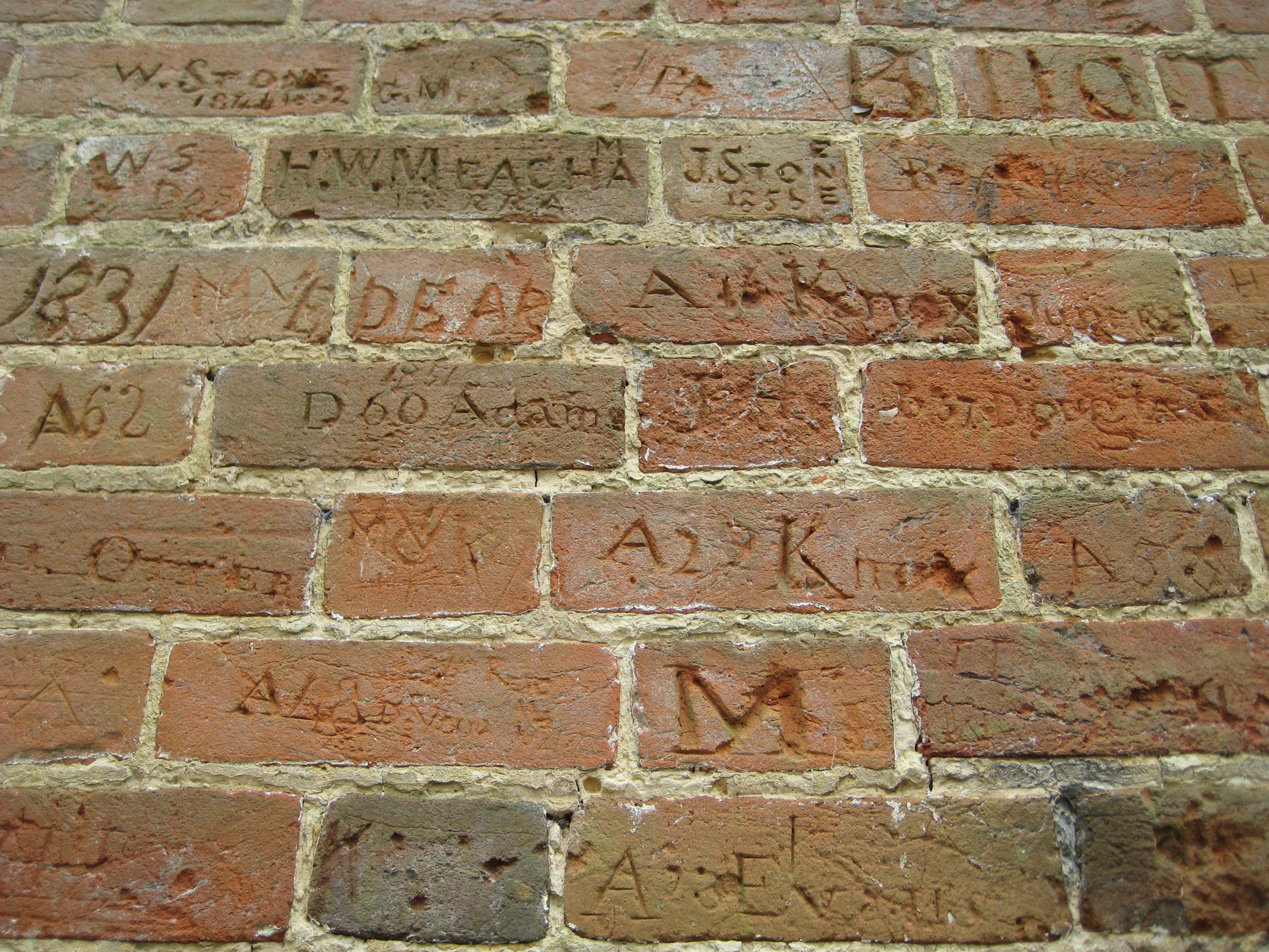 19th century soldier's graffiti carved into the bricks of Norris's Obelisk (also known as Norris's Whim or the Camberley Obelisk), Camberley, Surrey. The tower was built by John Norris of Hawley Place in about 1765-1770, and during the 19th century cadets from the nearby Royal Military Academy at Sandhurst would be marched up and down the hill on which the obelisk was located by the Duke of York. Almost the whole structure is covered by the names of approximately 10,000 soldiers.